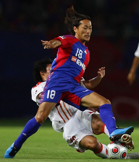 JULY 15, 2009 - Football : Naohiro Ishikawa of FC Tokyo in action during the YAMAZAKI NABISCO CUP match against Nagoya Grampus at Ajinomoto stadium on July 15, 2009 in Tokyo, Japan. (Photo by Tsutomu Takasu)